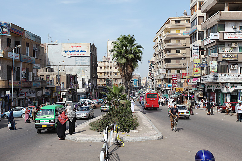 Ahmed Orabi street, Damanhur, Ägypten